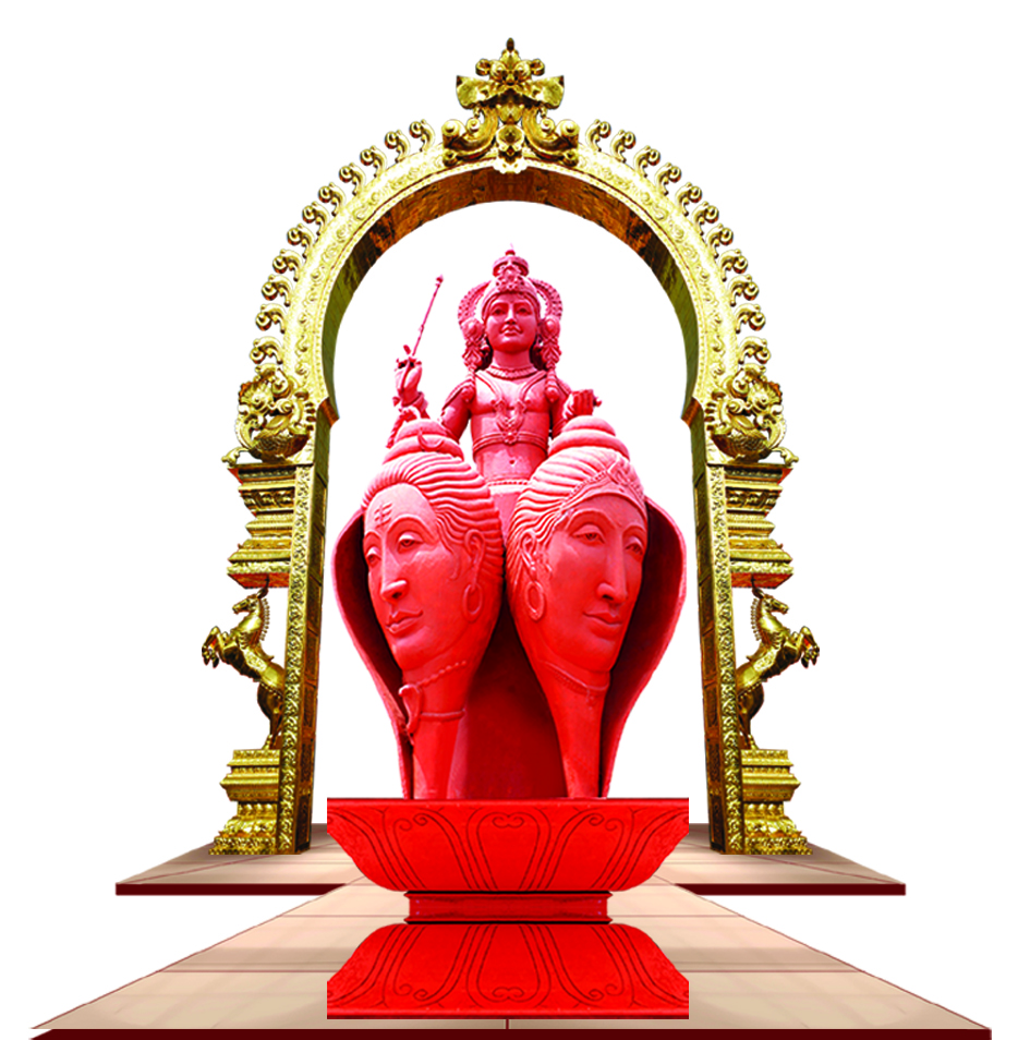 The Stupa of Lord Siva Parvathy Vishnumaya taken from perigottukara devasthanam